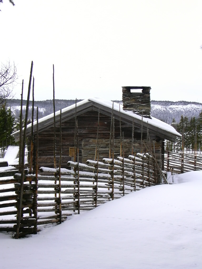 a swedish framehouse, Jamtli-museum in Östersund, Sweden